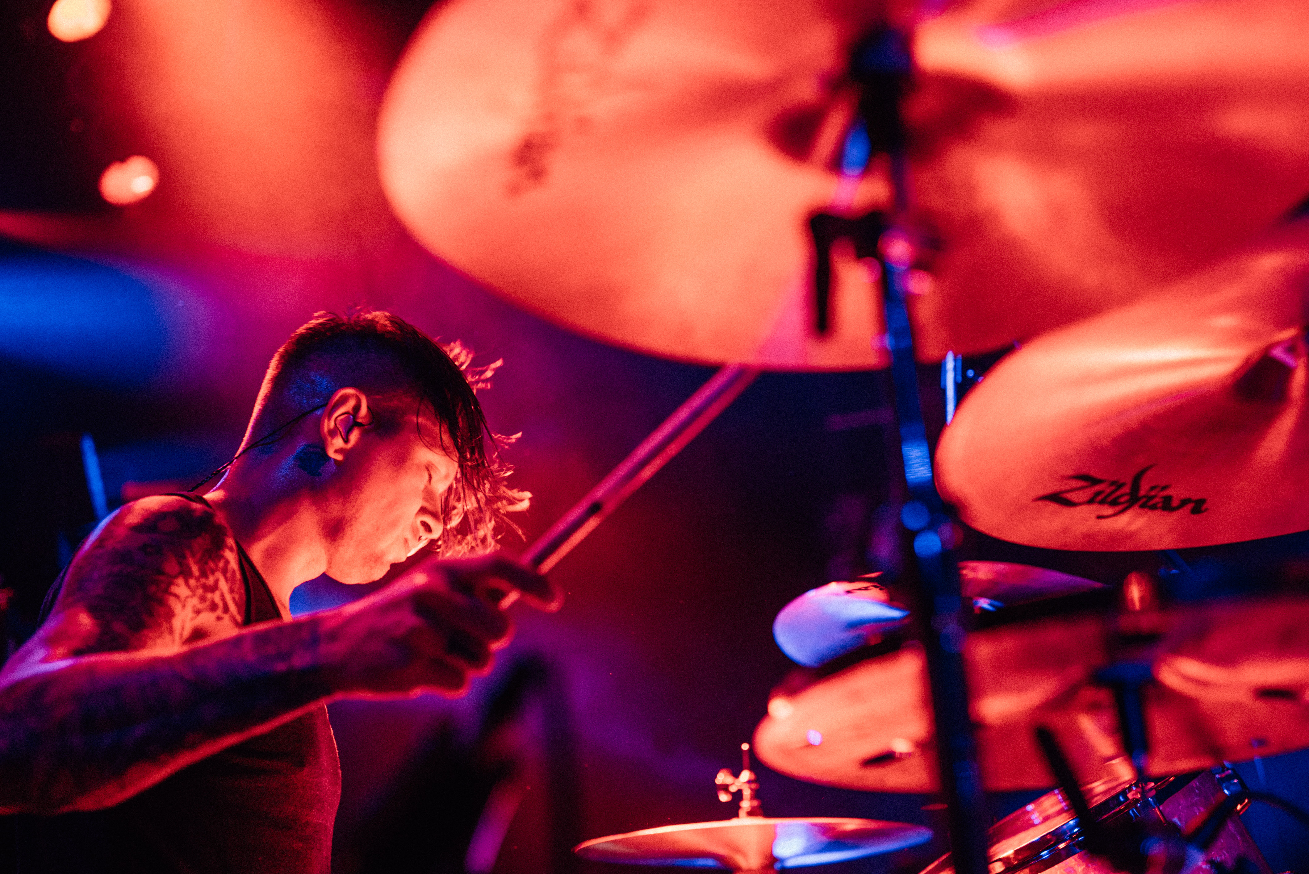 Chris Hornbrook on tour with Senses Fail.